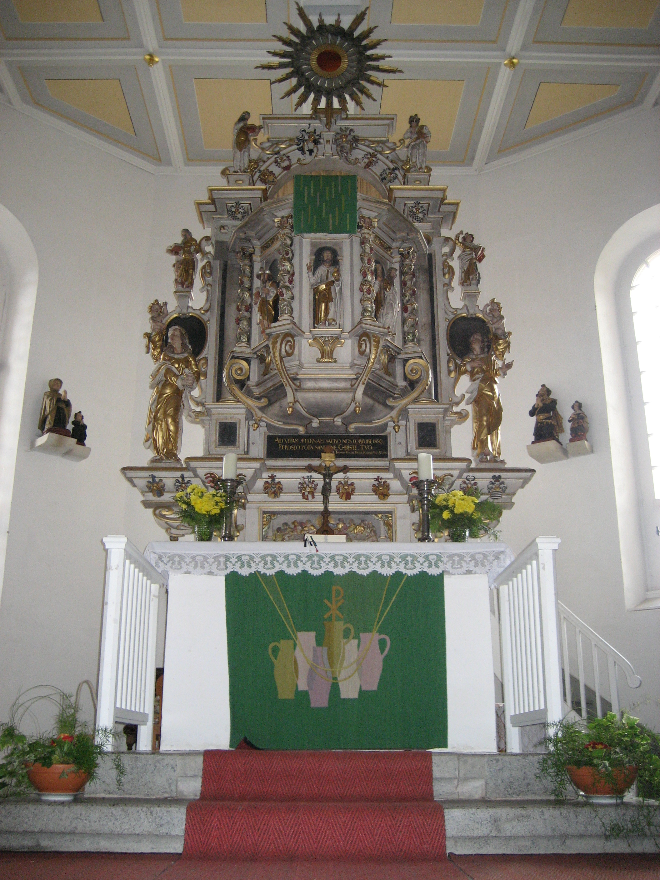 Altar in the Church of St. Martin to Schönfels